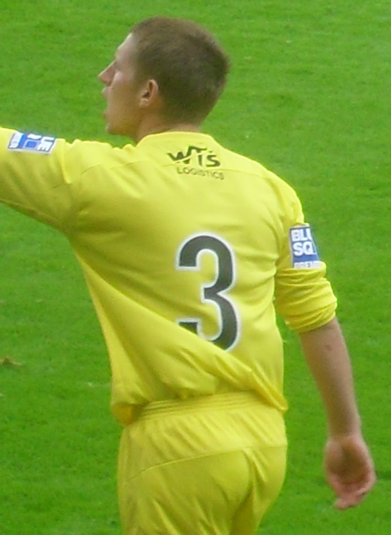 Sam Rents.